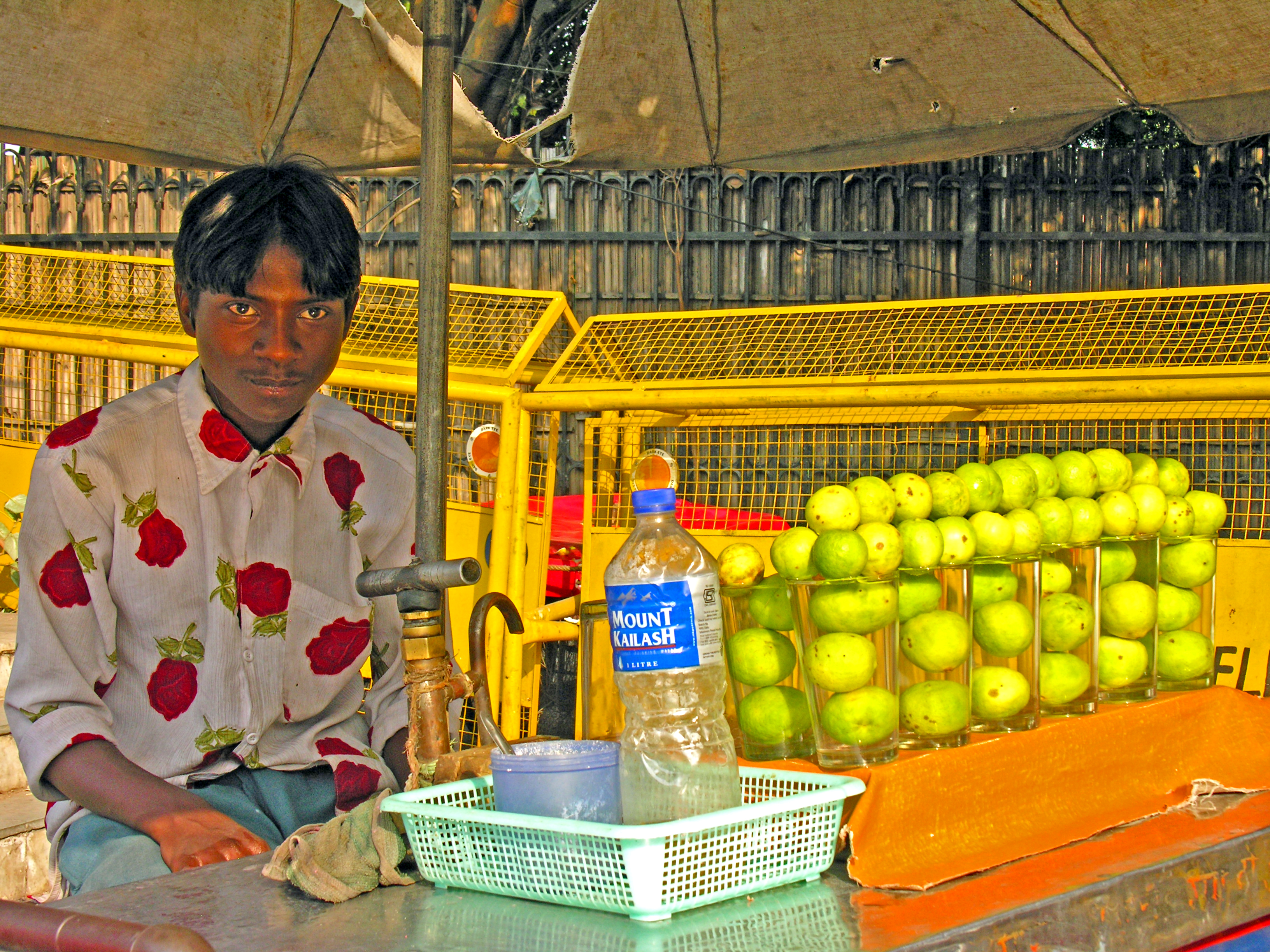 When leaving the Red Fort there was a person selling lime water, a very popular drink in India.